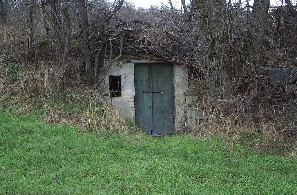 An old wine cellar (Vienna, Austria)